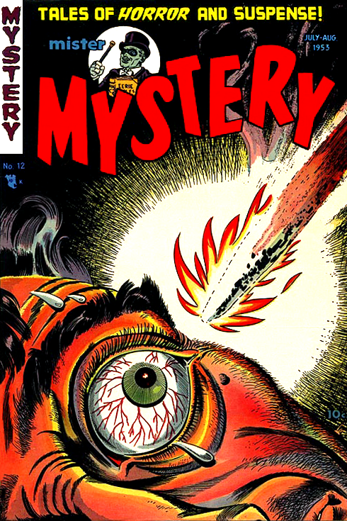 Mister Mystery #12, (July 1953). Artwork by Bernard Baily.